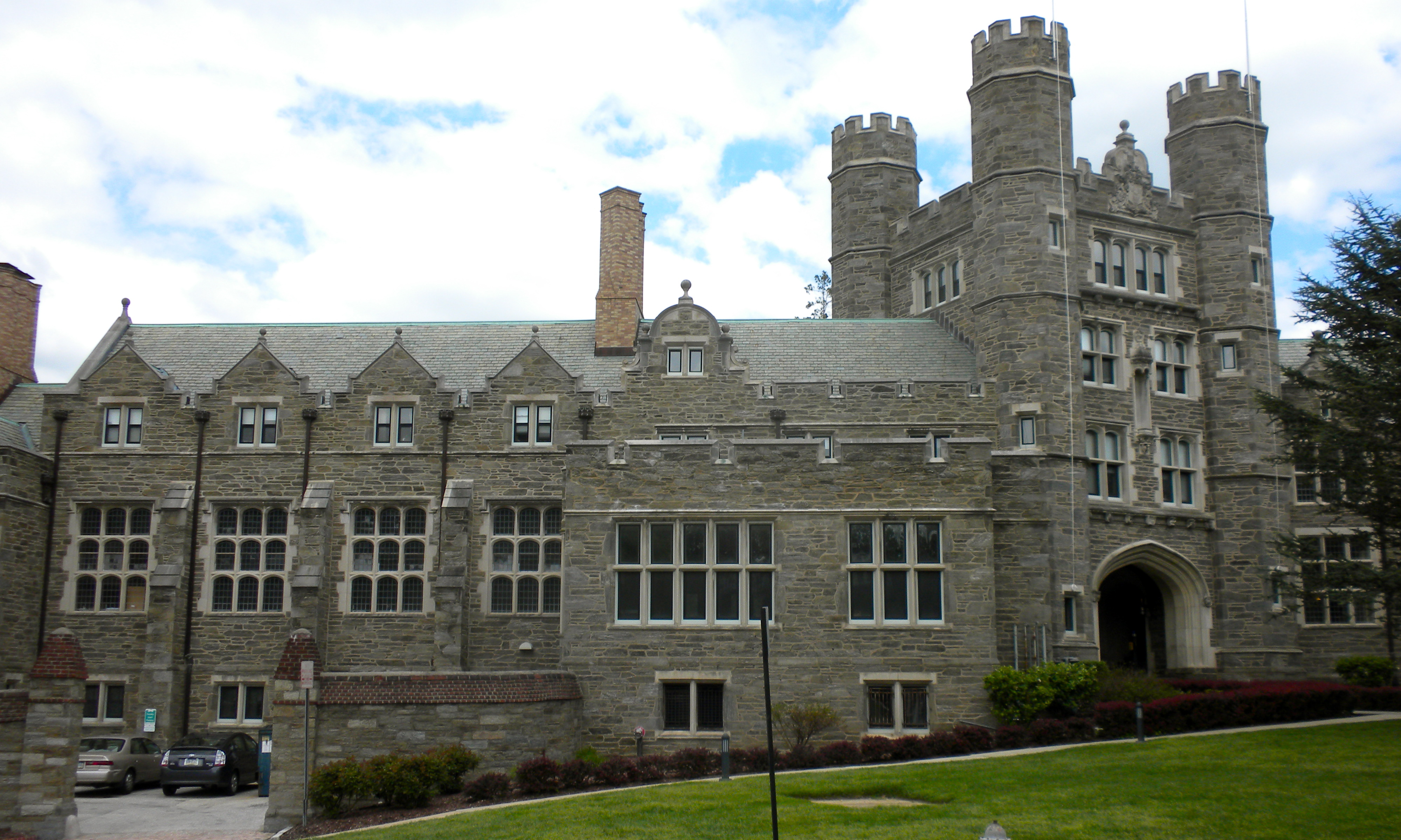 Rockefeller Hall Dormitory (completed 1904). Part of the Bryn Mawr College Historical District on the NRHP since May 4, 1979 The campus (HD) is between Morris Avenue, Yarrow Street and New Gulph Road in Bryn Mawr, Montgomery County, Pennsylvania.